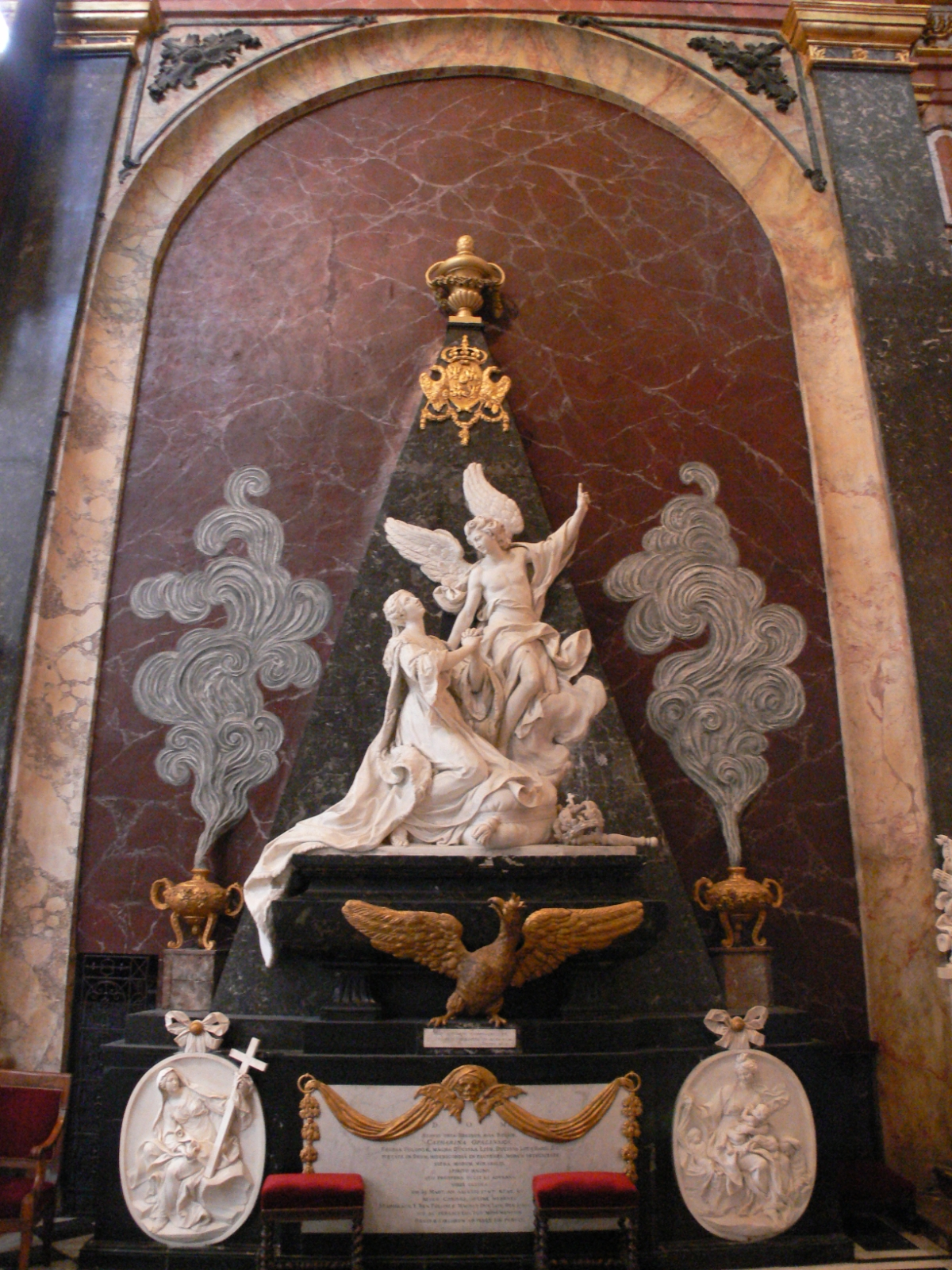 Queen Katarzyna Opalińska's tomb is in the church of Notre-Dame-de-Bonsecours in Nancy.